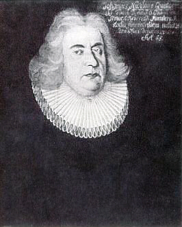 Johann Nikolaus Quistorp (1651-1715), theologian, pastor, superintendent of Rostock and professor at the University of Rostock.